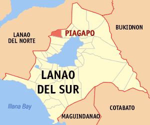 Map of the Lanao del Sur showing the location of Piagapo